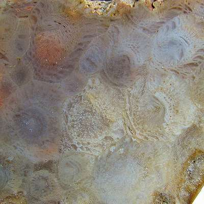 A polished slice of agatized Lithostrotionella coral, which is currently the official State Gemstone for West Virginia.